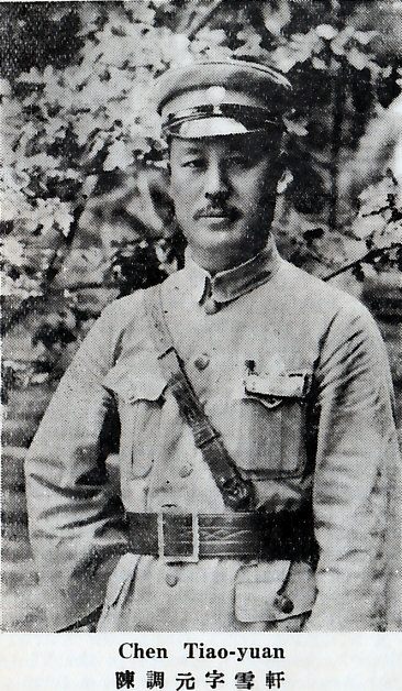 Chen Diaoyuan (Ch'en Tiao-yüan) (1886 - 1943)